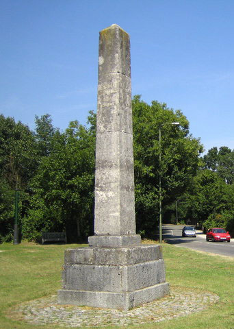 Photo of the Hadley Highstone, located just north of the intersection between the Great North Road and Kitts End Road in Monken Hadley, Greater London, United Kingdom. The obelisk commemorates the Battle of Barnet and reportedly marks the location where Richard Neville, Earl of Warwick, the Kingmaker had died. Erected in 1740 by Sir Jeremy Sambrook approximately 200 metres further south, it was moved to the current location in 1840.